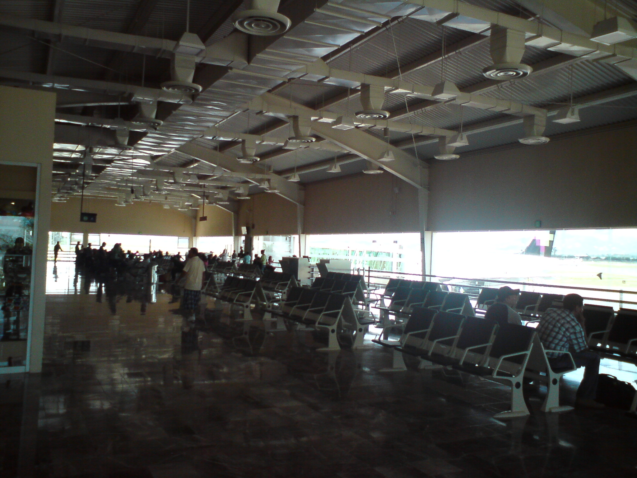 Room of expect in the second flat for arrivals and exits of national flights of the International Airport Of the Bajío.